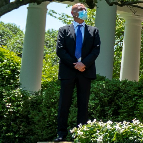 Moncef Slaoui listens as General Gustave Perna, Commanding General of the U.S. Army Material Command, delivers remarks during an update on vaccine development Thursday, May 15, 2020, in the Rose Garden of the White House. (Official White House Photo by Shealah Craighead)